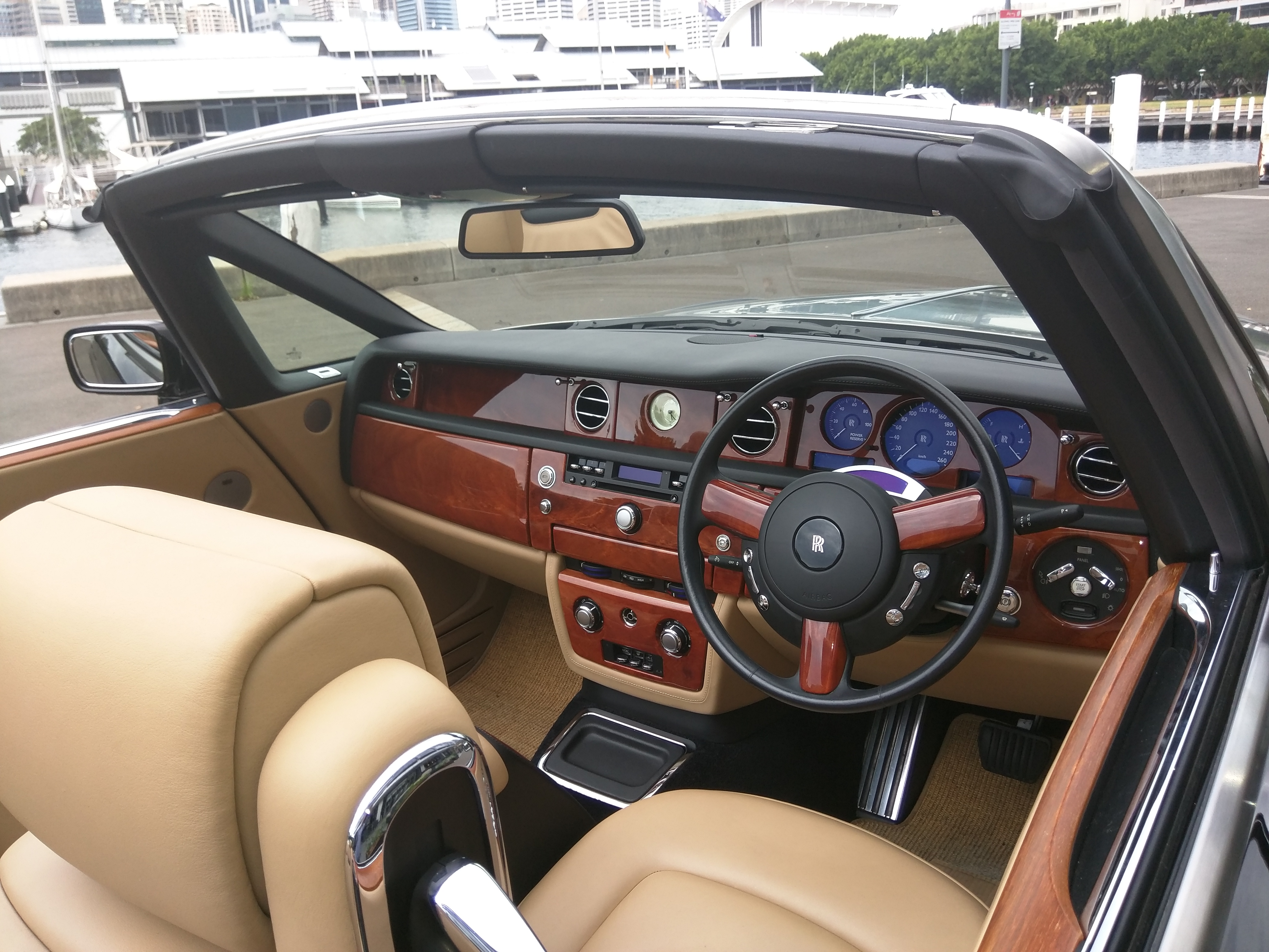 Rolls-Royce Drophead Coupe in Pyrmont, Sydney